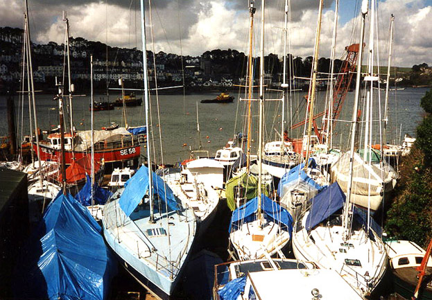 Lanteglos: boatyard at Polruan. Yachts wintering ashore